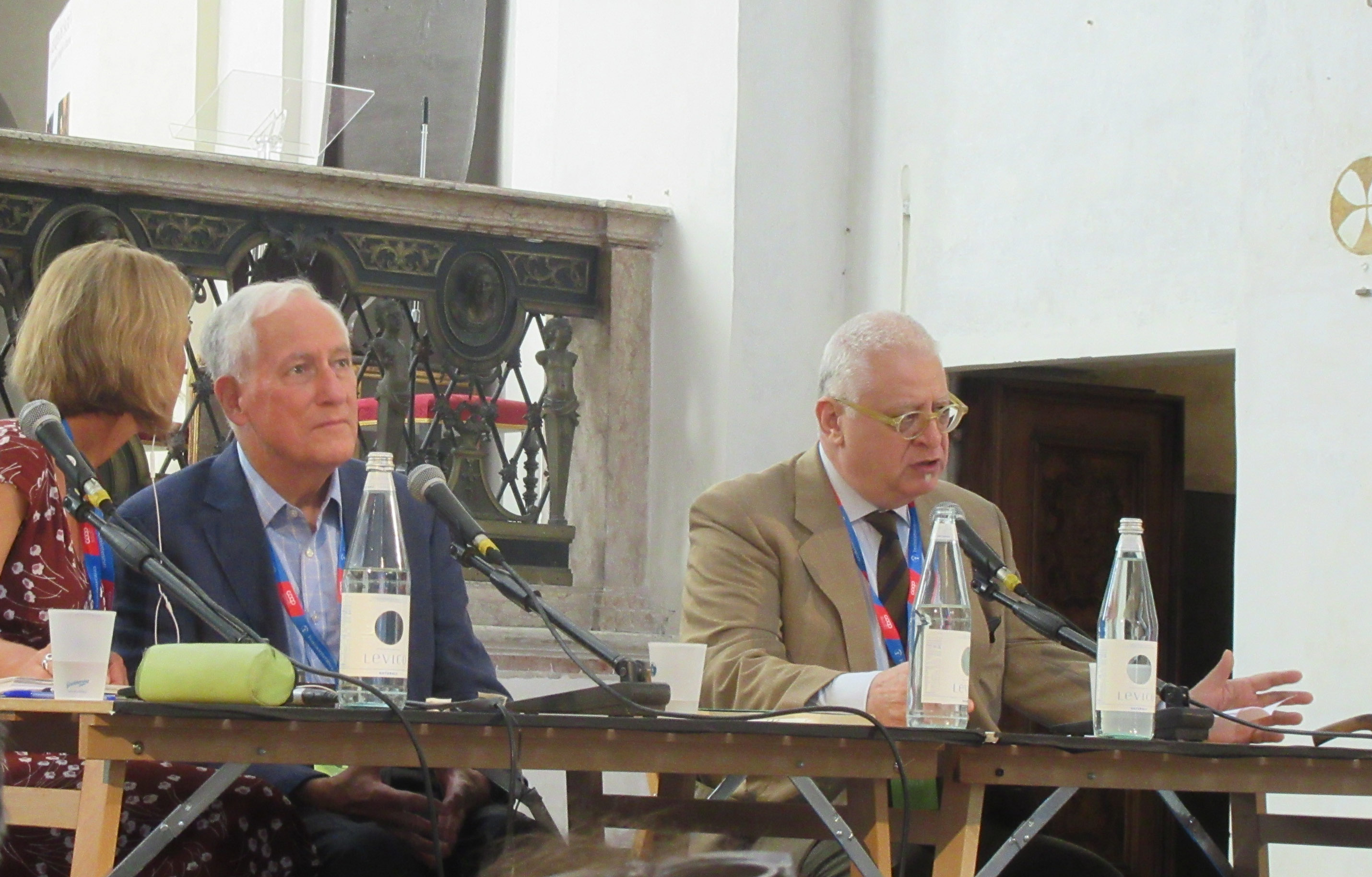 Professor Robert Darnton and professor Hans Tuzzi at Festivaletteratura, Mantua, Sept., 8th, 2018